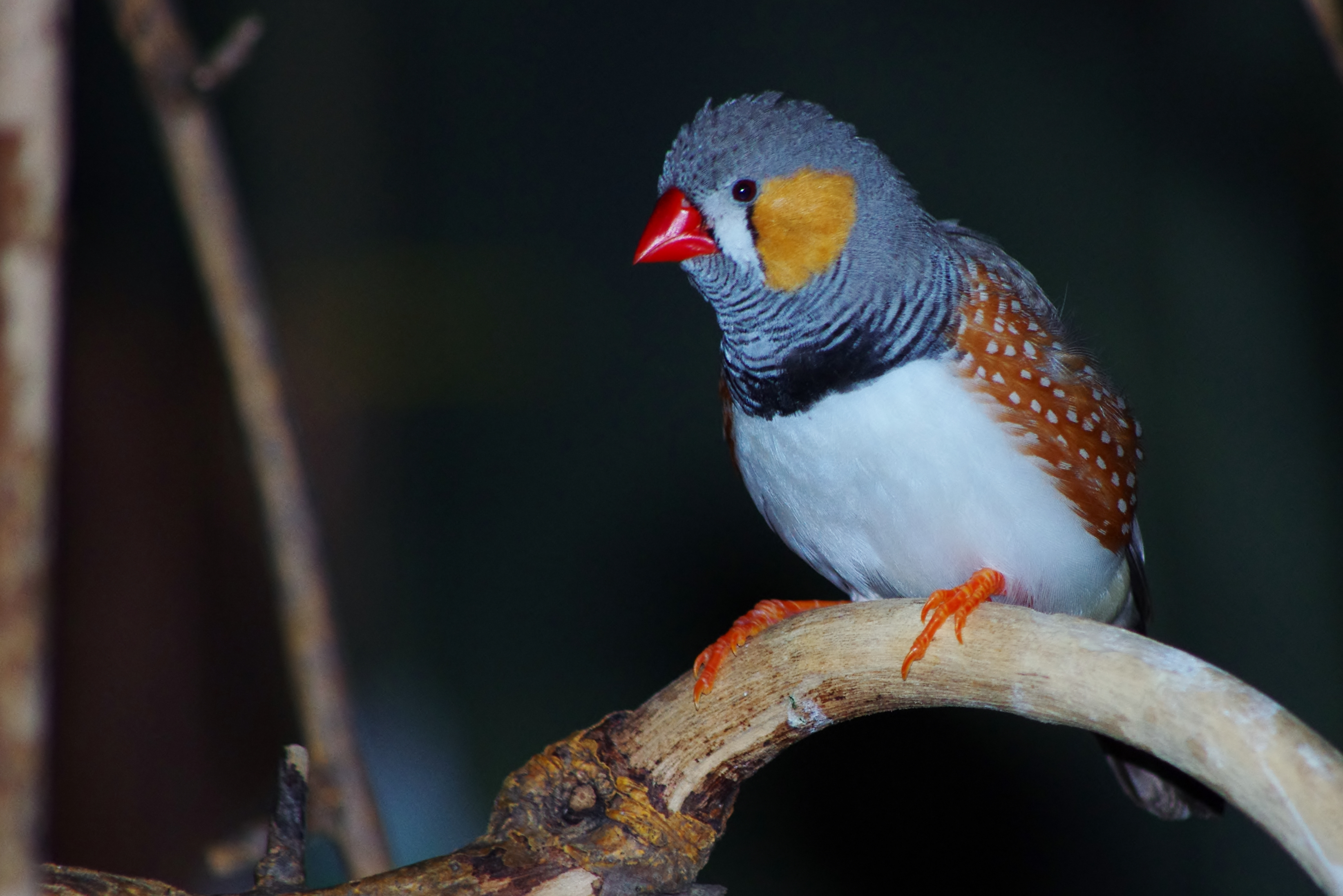 An adult male Zebra Finch at Bird Kingdom, Niagara Falls, Ontario, Canada.